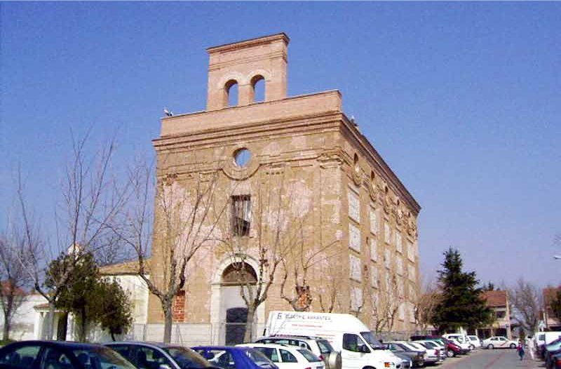 Church of "los Santos Justo y Pastor" , Getafe, (Madrid), Spain Author: Miguel303xm Date: January 14th, 2004